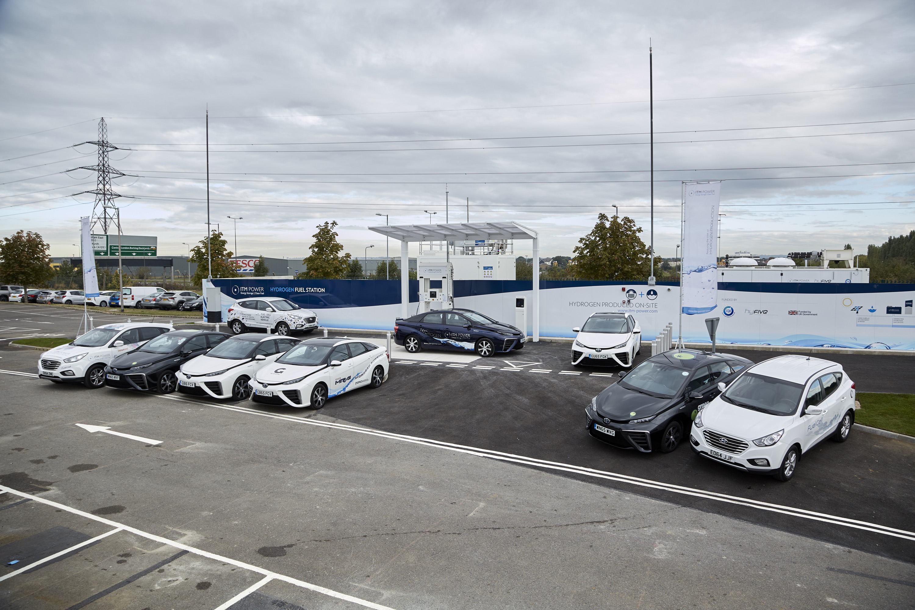 Fuel Cell Electric Vehicles at ITM Power Hydrogen Station at CEME, UK